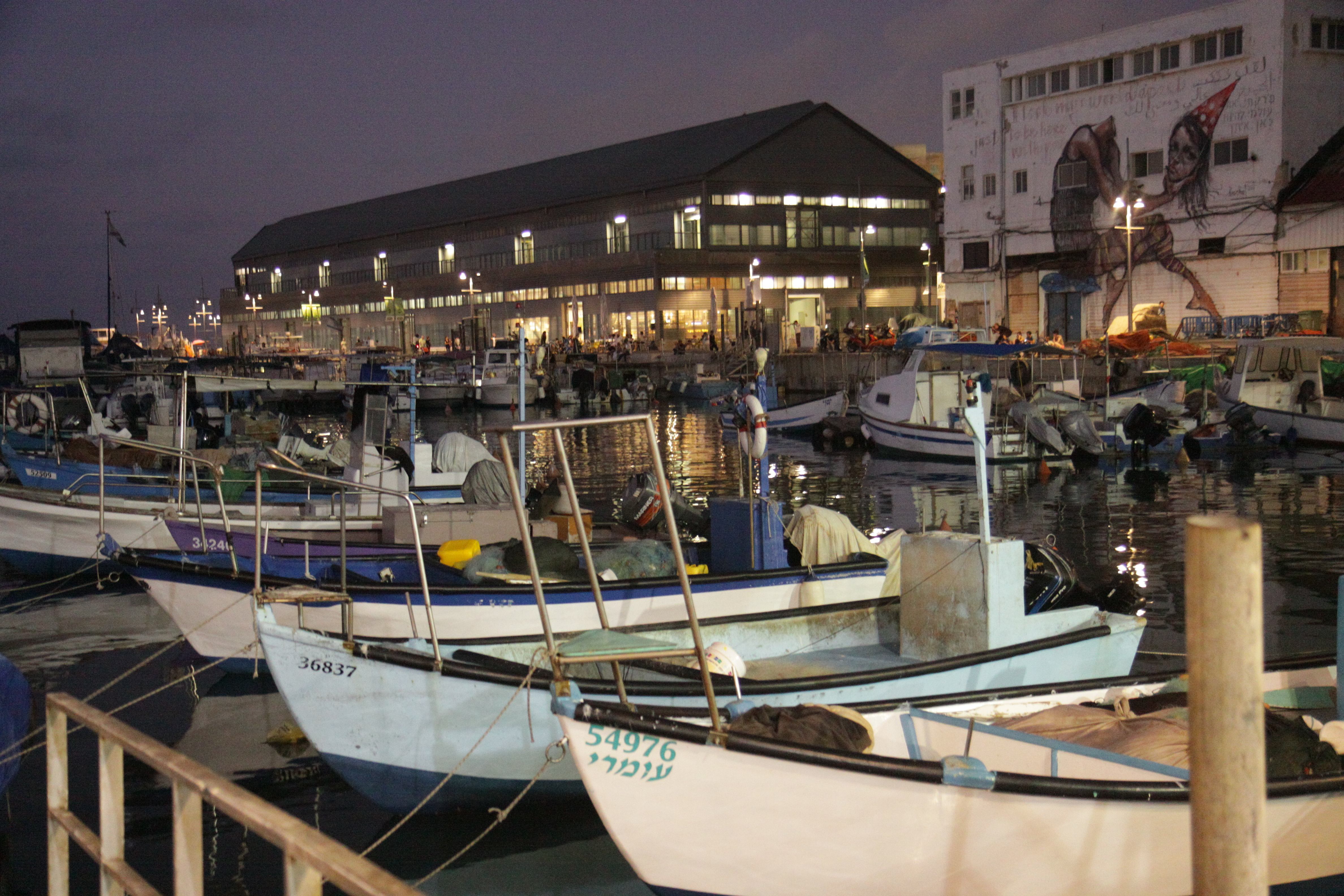 Jaffa port at night